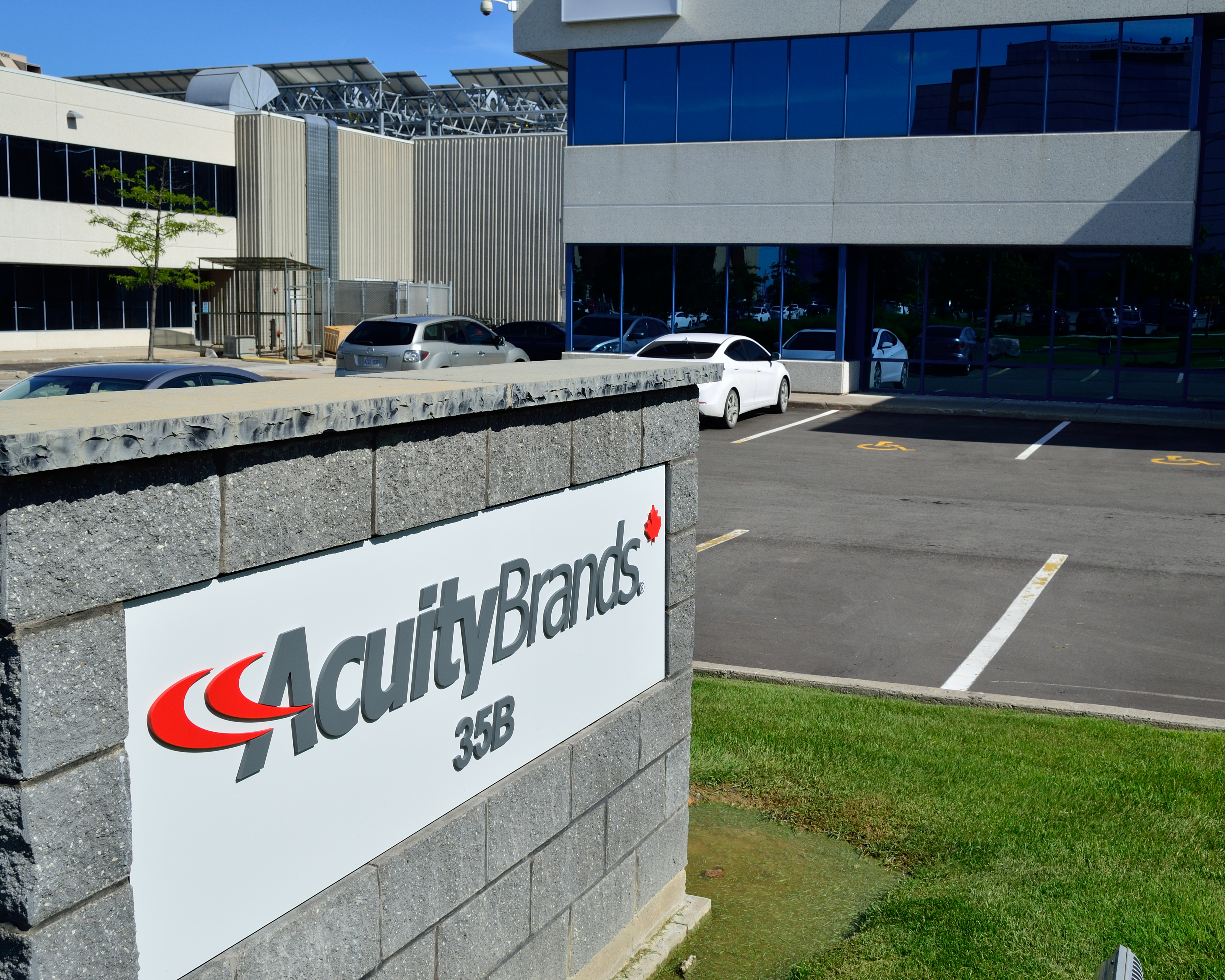 Acuity Brands - 35 Minthorn Blvd, Thornhill, ON, Canada